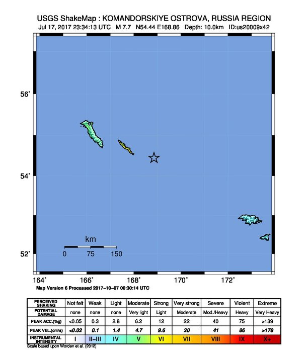 M 7.7 - 202km ESE of Nikol'skoye, Russia - intensity